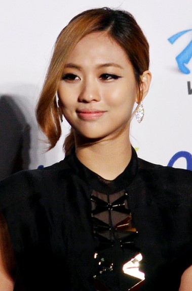 Wang Feifei at Seoul Music Awards red carpet, 19 January 2012